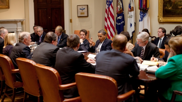 President Barack Obama meets with representatives from the credit card industry in to talk about the need for greater consumer protections, a need made all the more urgent by the economic crisis. Secretary of the Treasury Timothy Geithner is to his right.